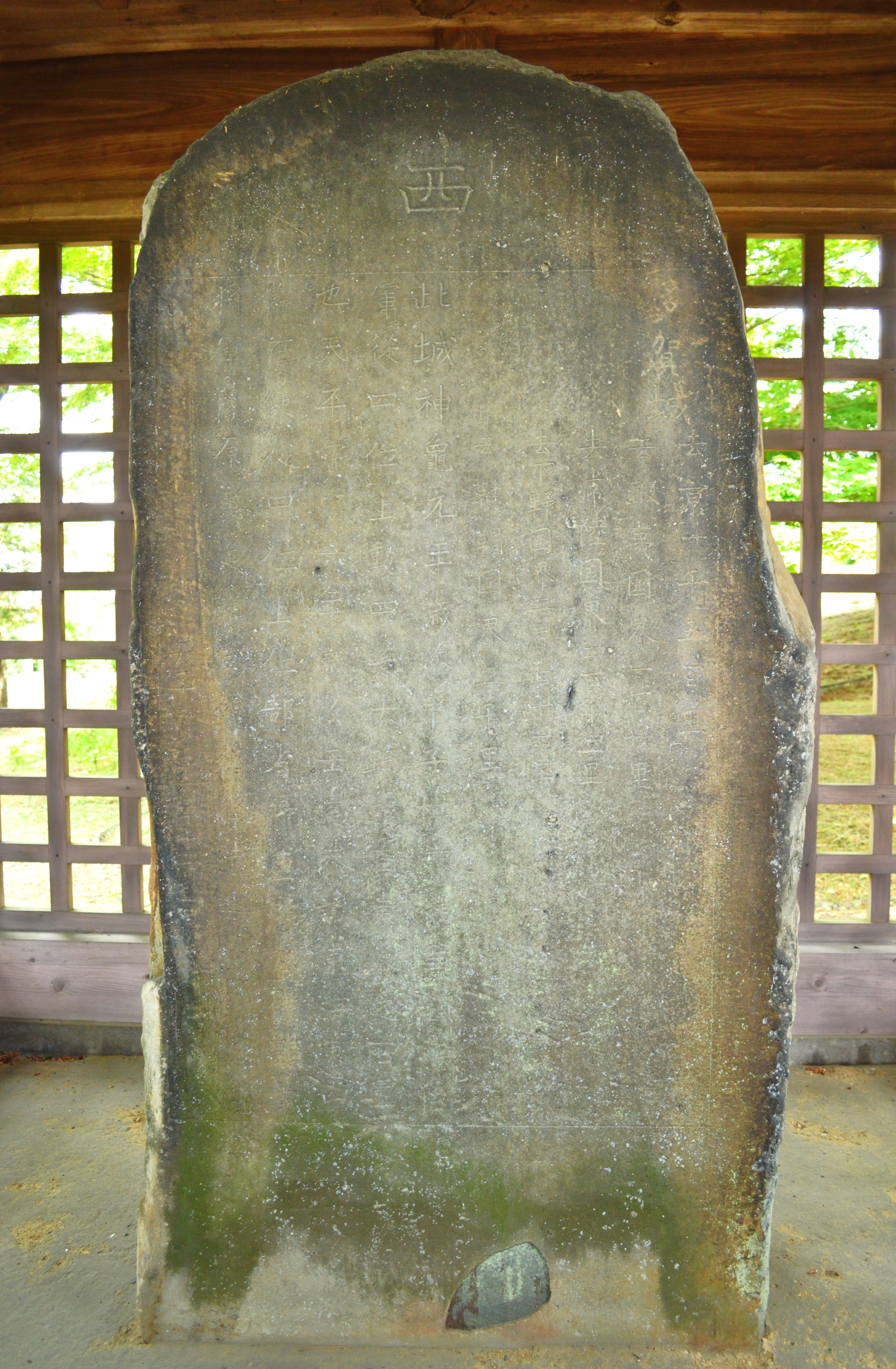 Tagajō Stele in Tagajō, Miyagi Prefecture